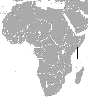 Tana River Mangabey (Cercocebus galeritus) range